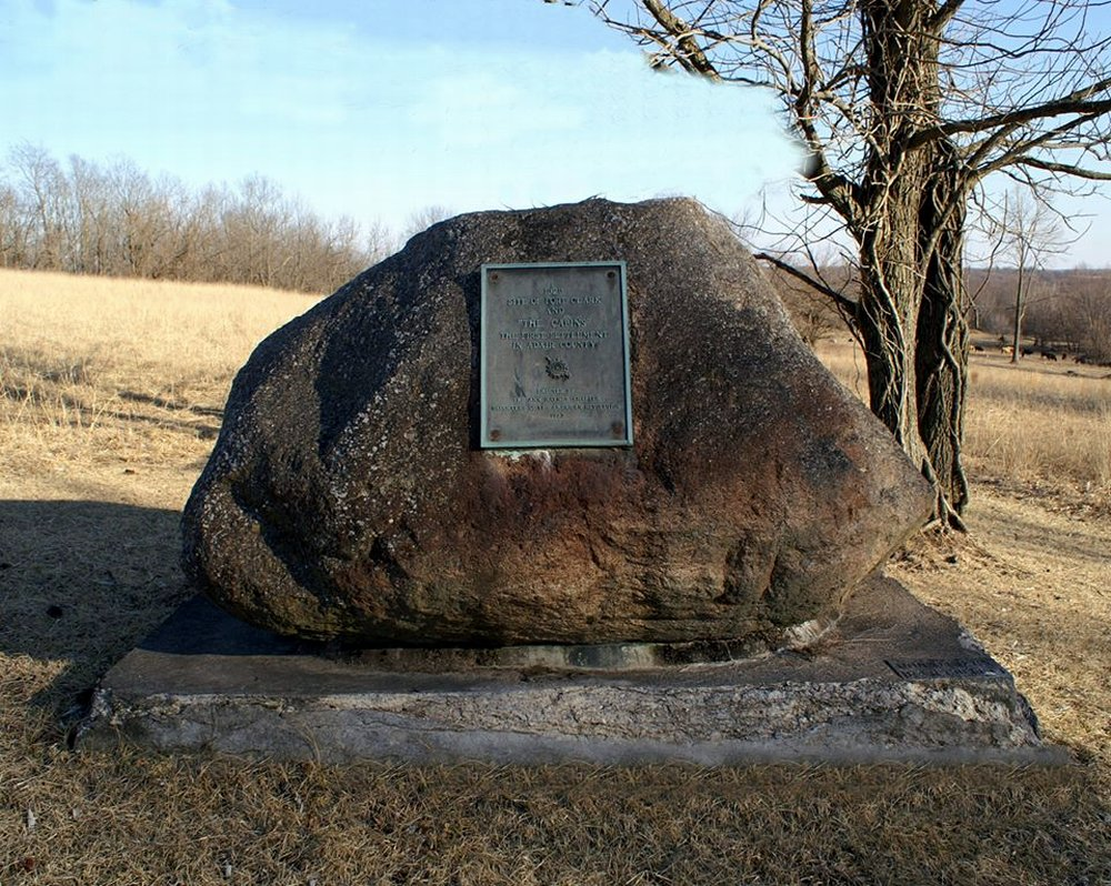 The Cabins Historic District in Adair County, Mo. Listed on the Nat'l Register of Historic Places, the small collection of buildings was one of the earliest settlements in the interior of northeast Missouri.